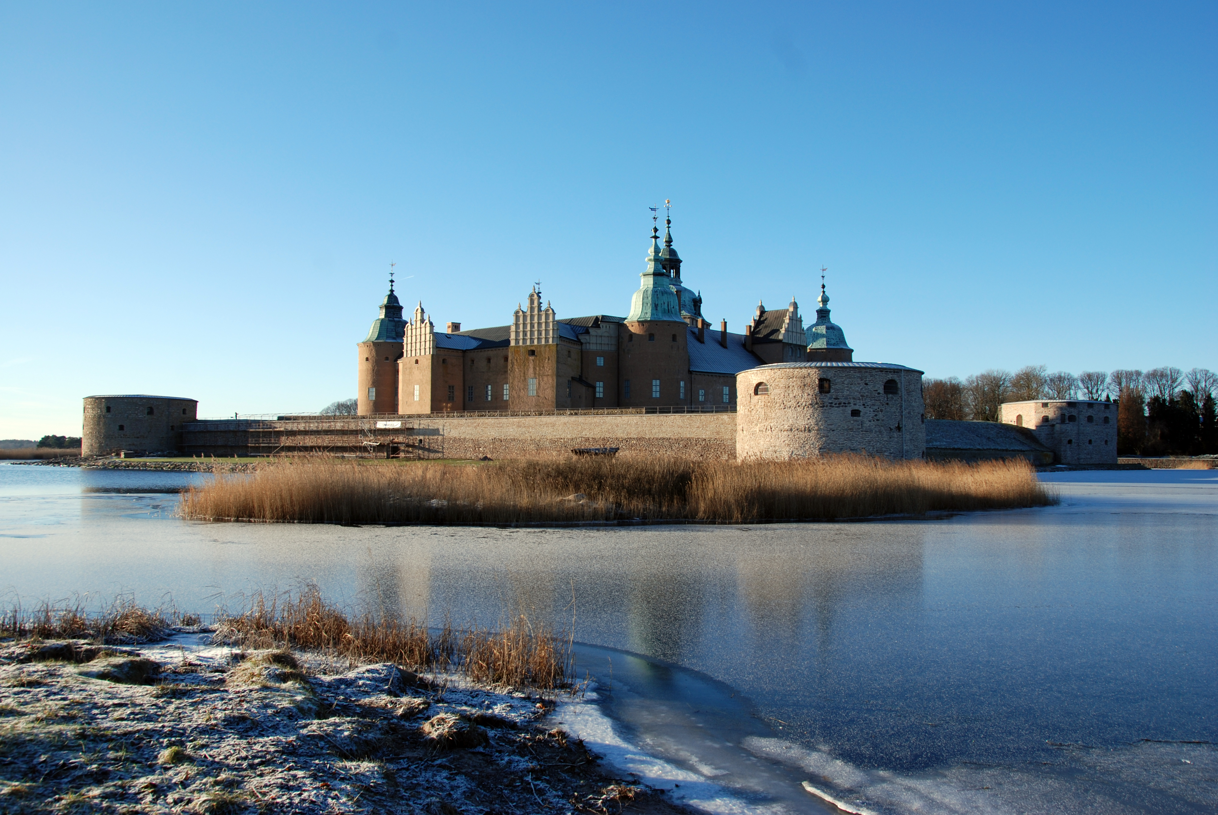 The Royal Castle of Kalmar